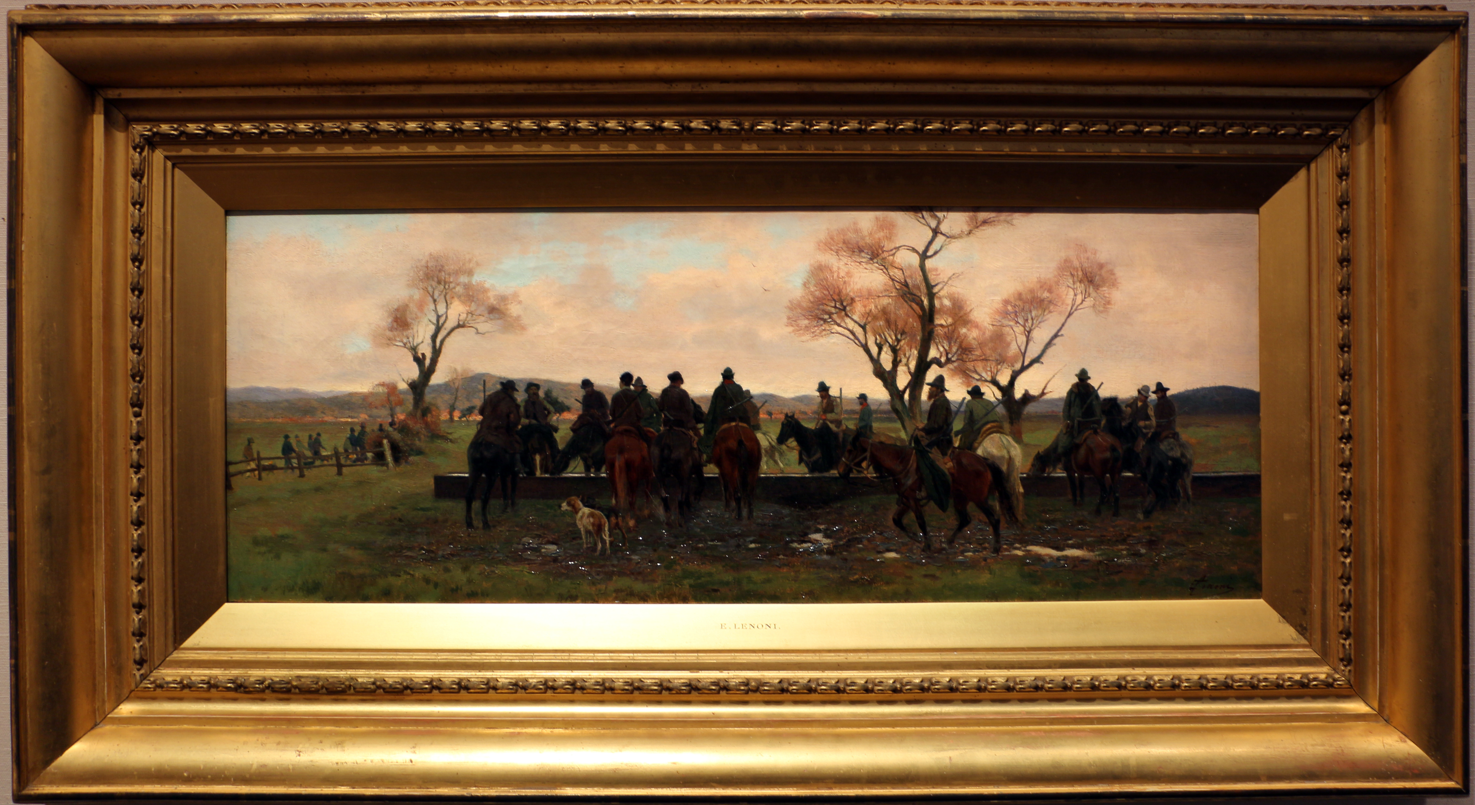 Courtesy of Jean-Luc Baroni